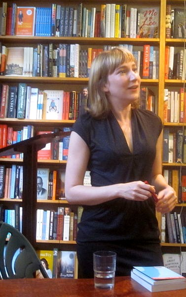 Octavia Books, Uptown New Orleans: Author Sheila Heti reads from and discusses her book "How Should a Person Be?"